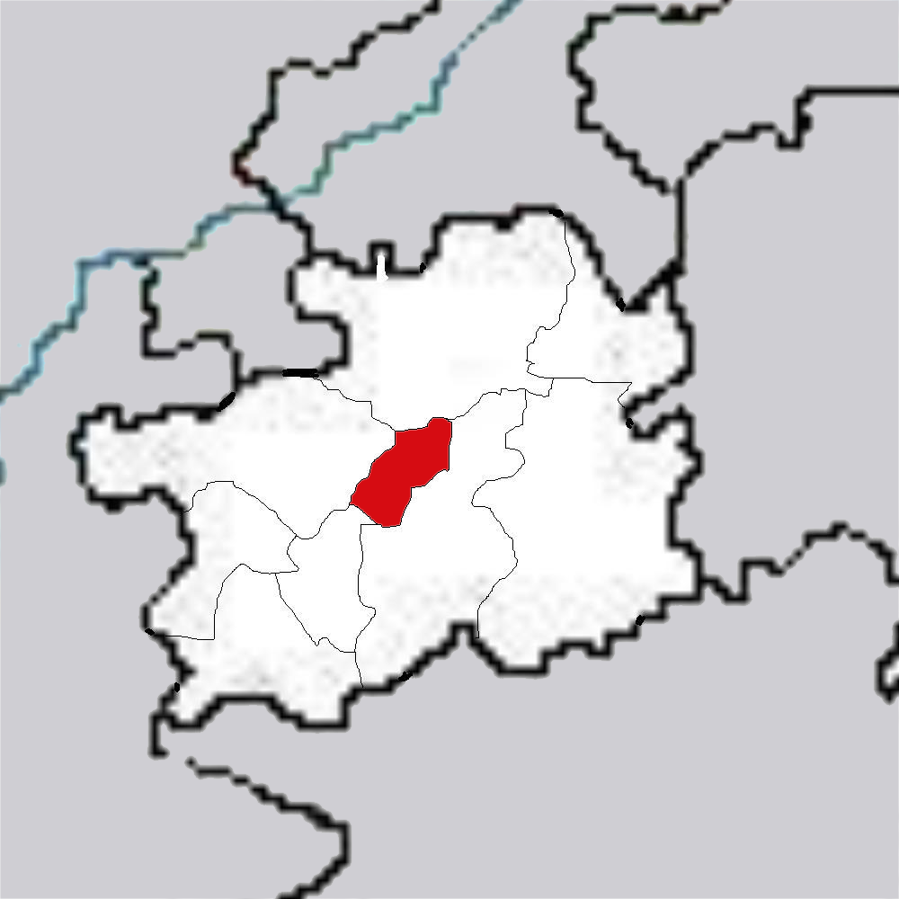 district of Guiyang